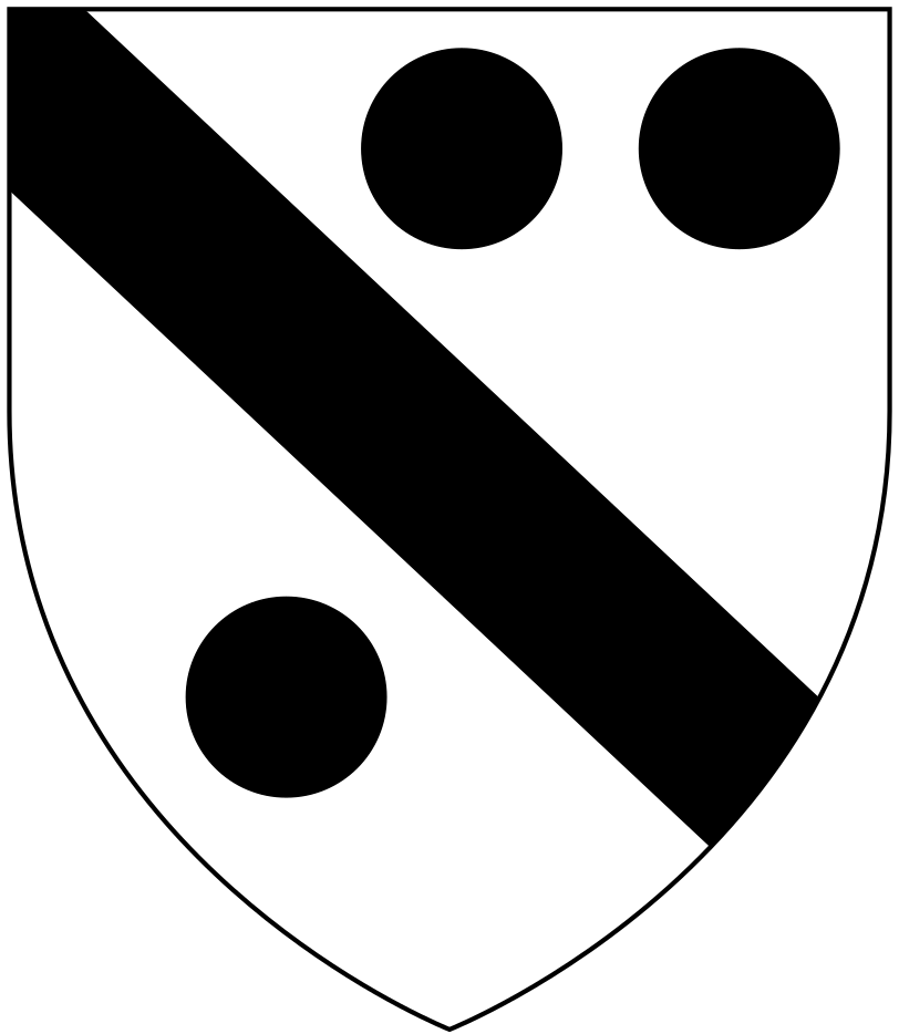 Arms of Cotton (Ancient): Argent, a bend sable between three pellets. The arrangement as seen on monuments in Exeter Cathedral to Bishop William Cotton (d.1621), Bishop of Exeter and on monument to his grandson Edward Cotton (d.1675), Treasurer of Exeter Cathedral, may be th result of 20th c. restoration.(See images[1]). William Cotton (fl.1378,1400) lord of the manor of Cotton in Cheshire, married Agnes de Ridware, daughter and heiress of Walter de Ridware, lord of the manor of Hamstall Ridware in Staffordshire.(Vivian, Lt.Col. J.L., (Ed.) The Visitations of the County of Devon: Comprising the Heralds' Visitations of 1531, 1564 & 1620, Exeter, 1895, pp.240-1) The junior branch of the Cotton family descended from Agnes de Ridware adopted the armorials of Ridware (Azure, an eagle displayed argent) [1] in lieu of their paternal arms of Cotton, which junior branch included Sir Robert Cotton, 1st Baronet (1570-1631) of Conington in Huntingdonshire, founder of the Cottonian Library. The senior branch, of which Bishop Cotton was a member, retained the ancient arms of Cotton (Argent, a bend sable between three pellets)